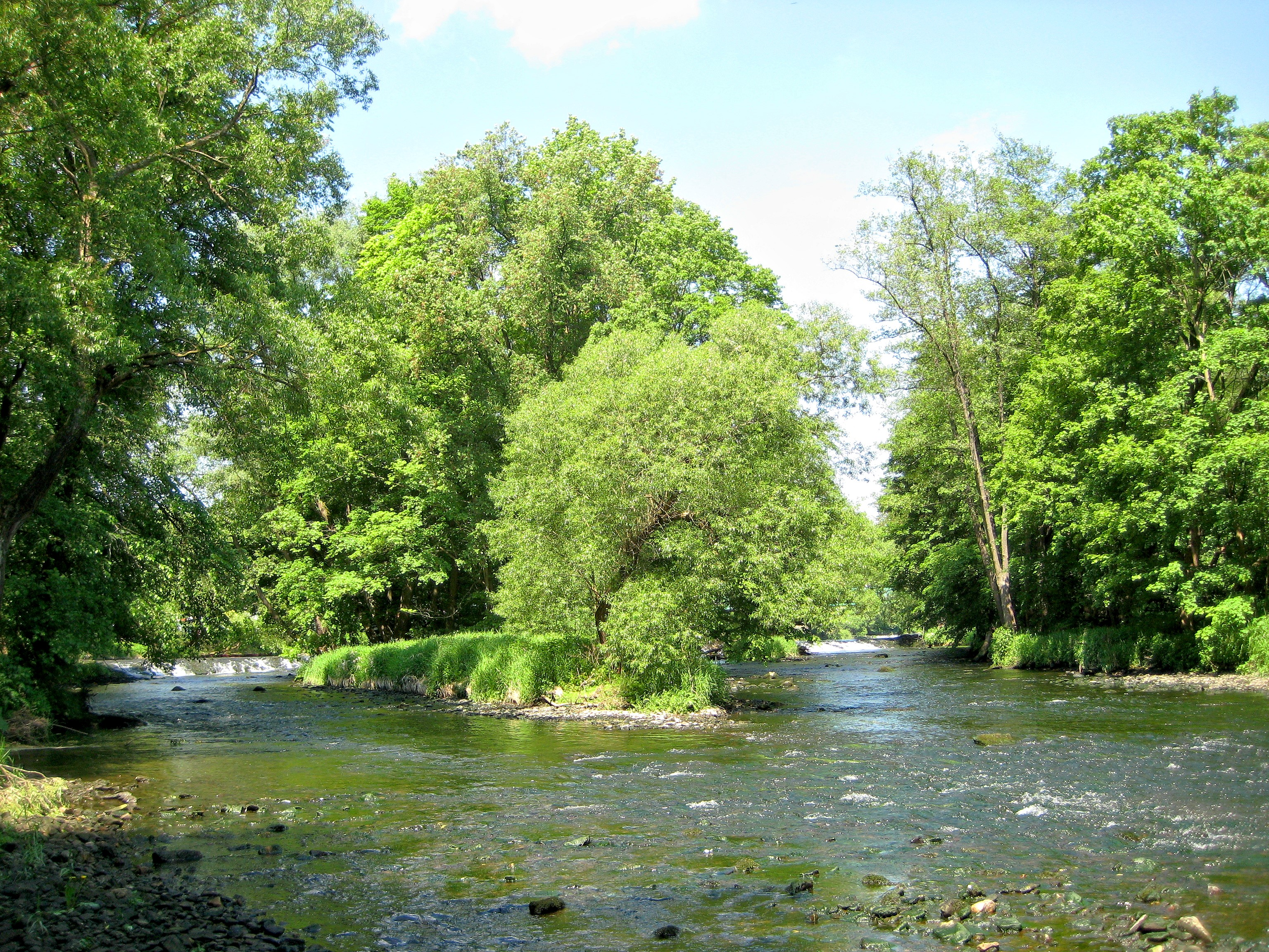 Thaya, Thayatal National Park